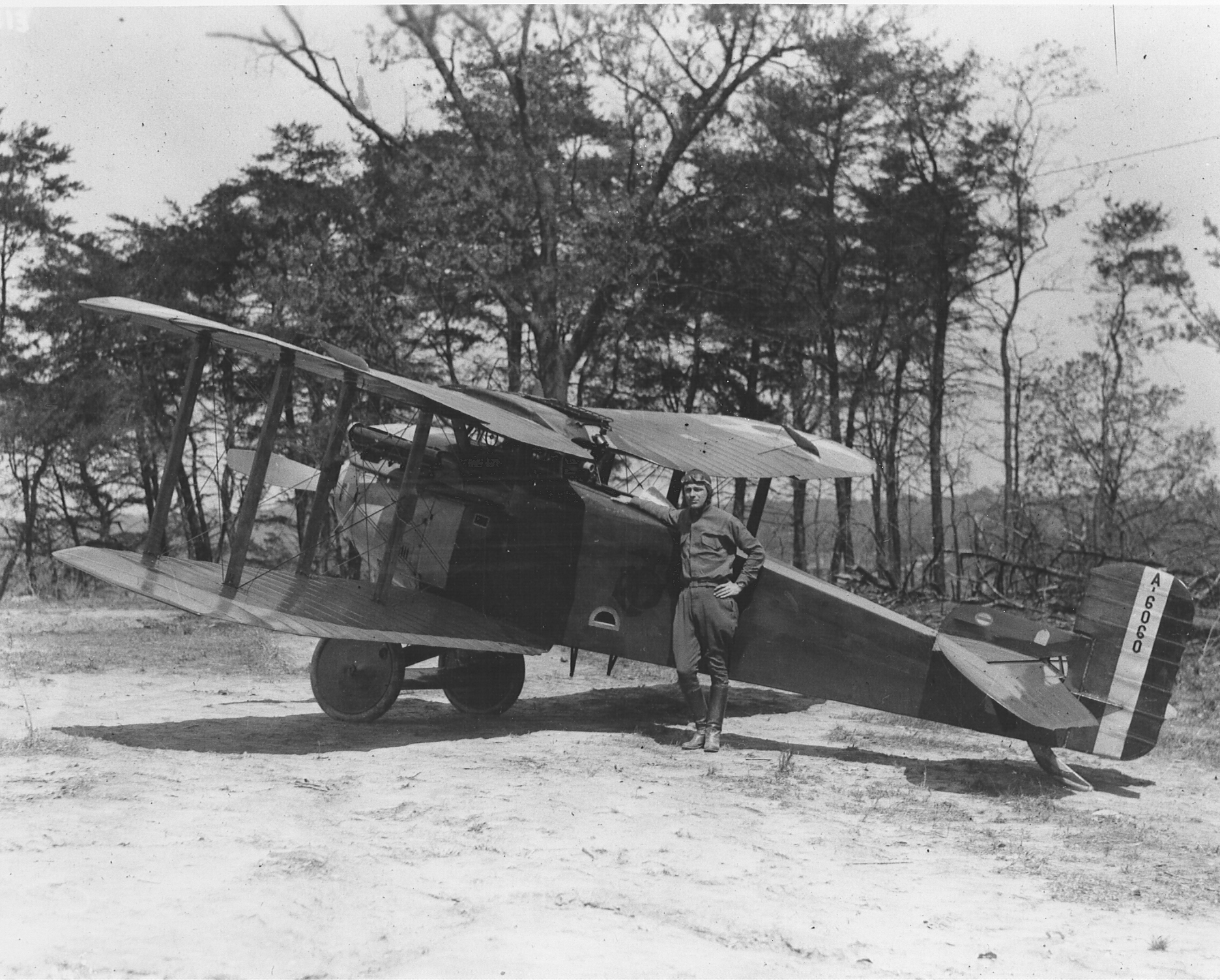 One of eleven U.S. Marine Corps Thomas-Morse MB-3 used in 1921/22.